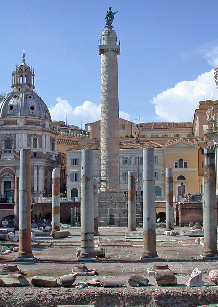 Rome; Trajan's Forum, Trajan's Column and Basilica Ulpia. Personal photo (september 2005) by MM in it.wiki